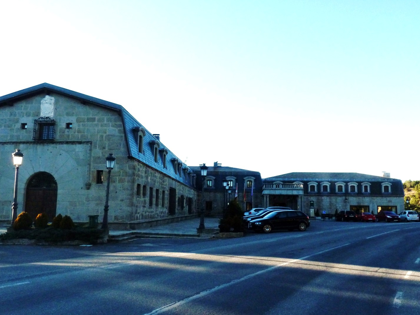 View of the Parador de Gredos in Navarredonda de Gredos (Castile and León, Spain).